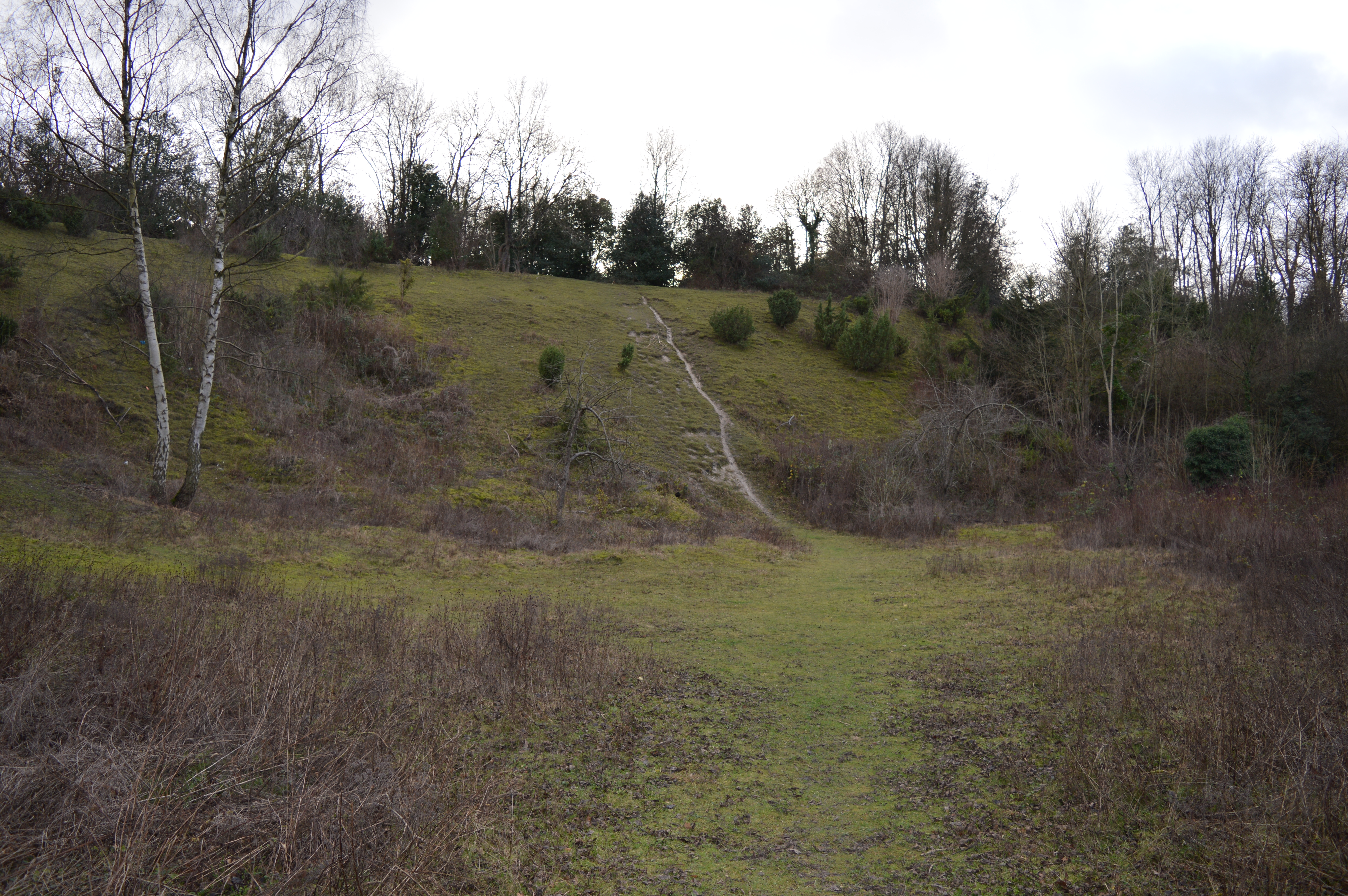 Roughdown Common, Site of Special Scientific Interest in Hemel Hempstead, Hertfordshire